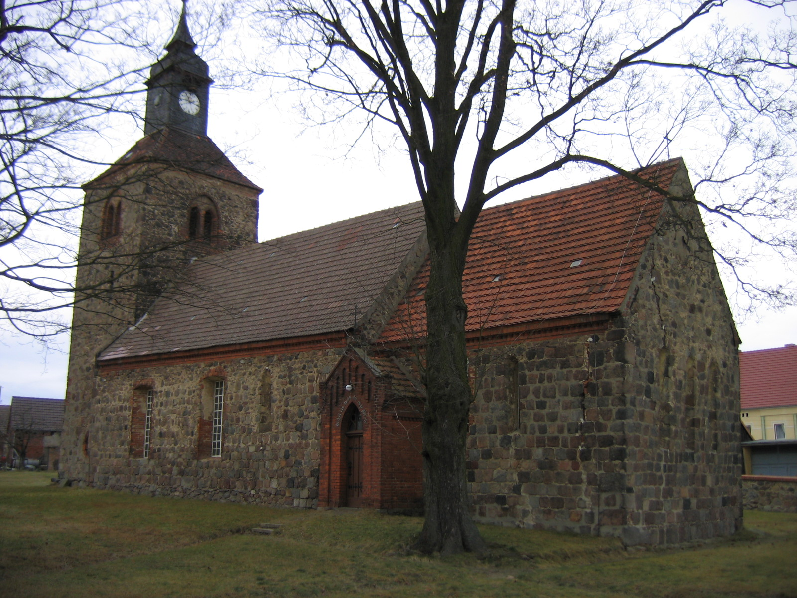 Rural church of Schlenzer, Gem. Niederer Fläming, Lkr. Teltow-Fläming, Brandenburg, Germany, view from west